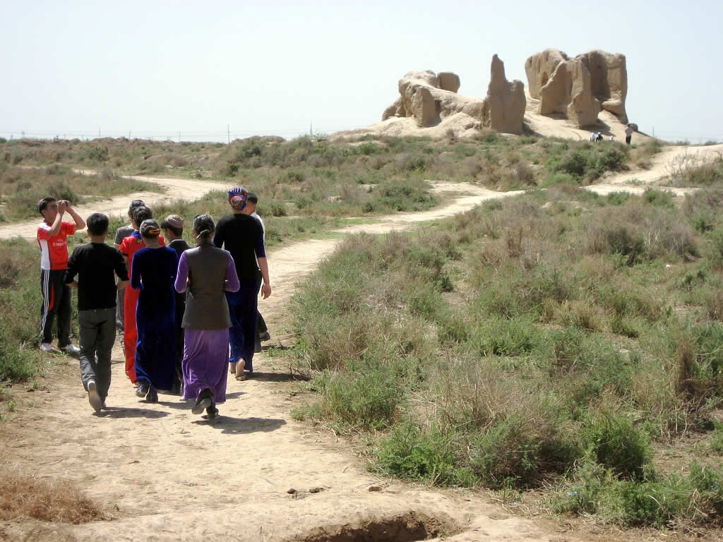 the way to the Little Kyz Kala, Merv, Turkmenistan